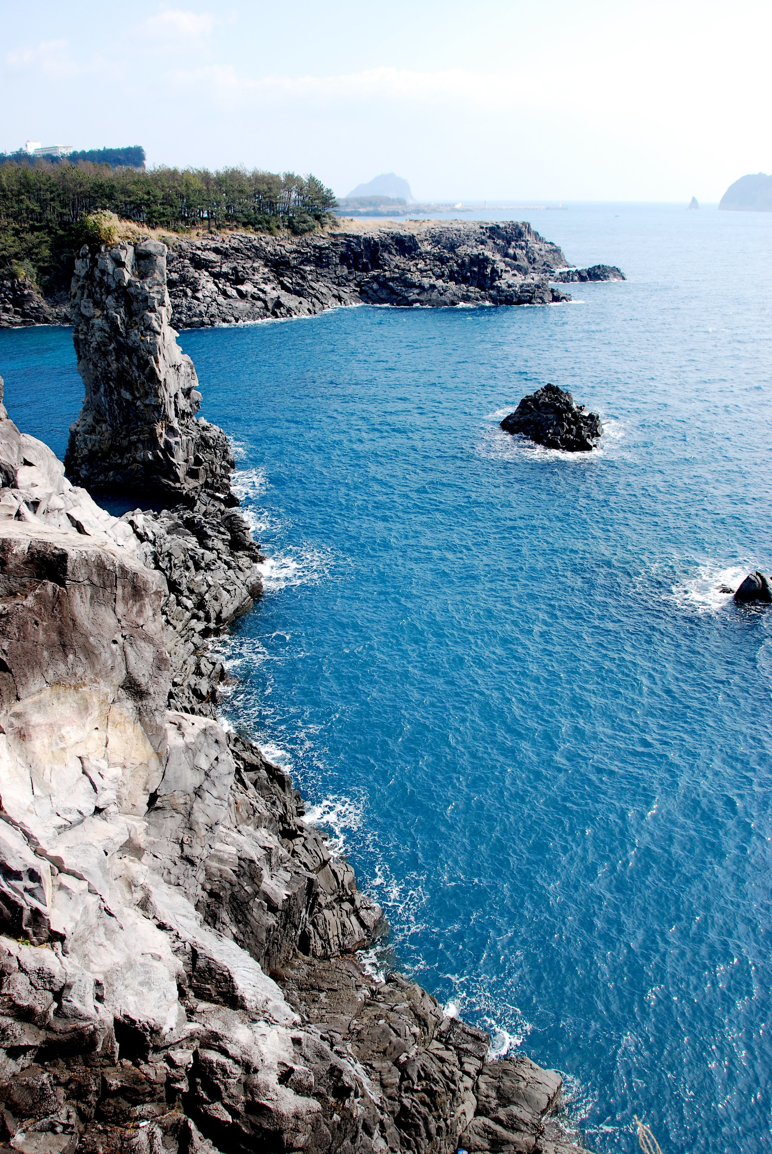 Jeju-do, South Korea.